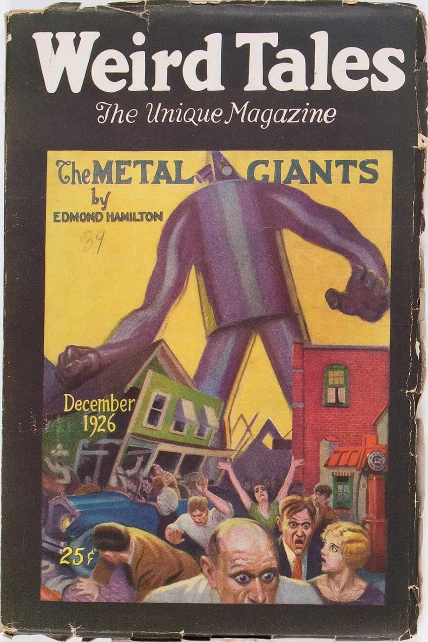 Cover of the pulp magazine Weird Tales (December 1926, vol. 8, no. 6) featuring The Metal Giants by Edmond Hamilton.